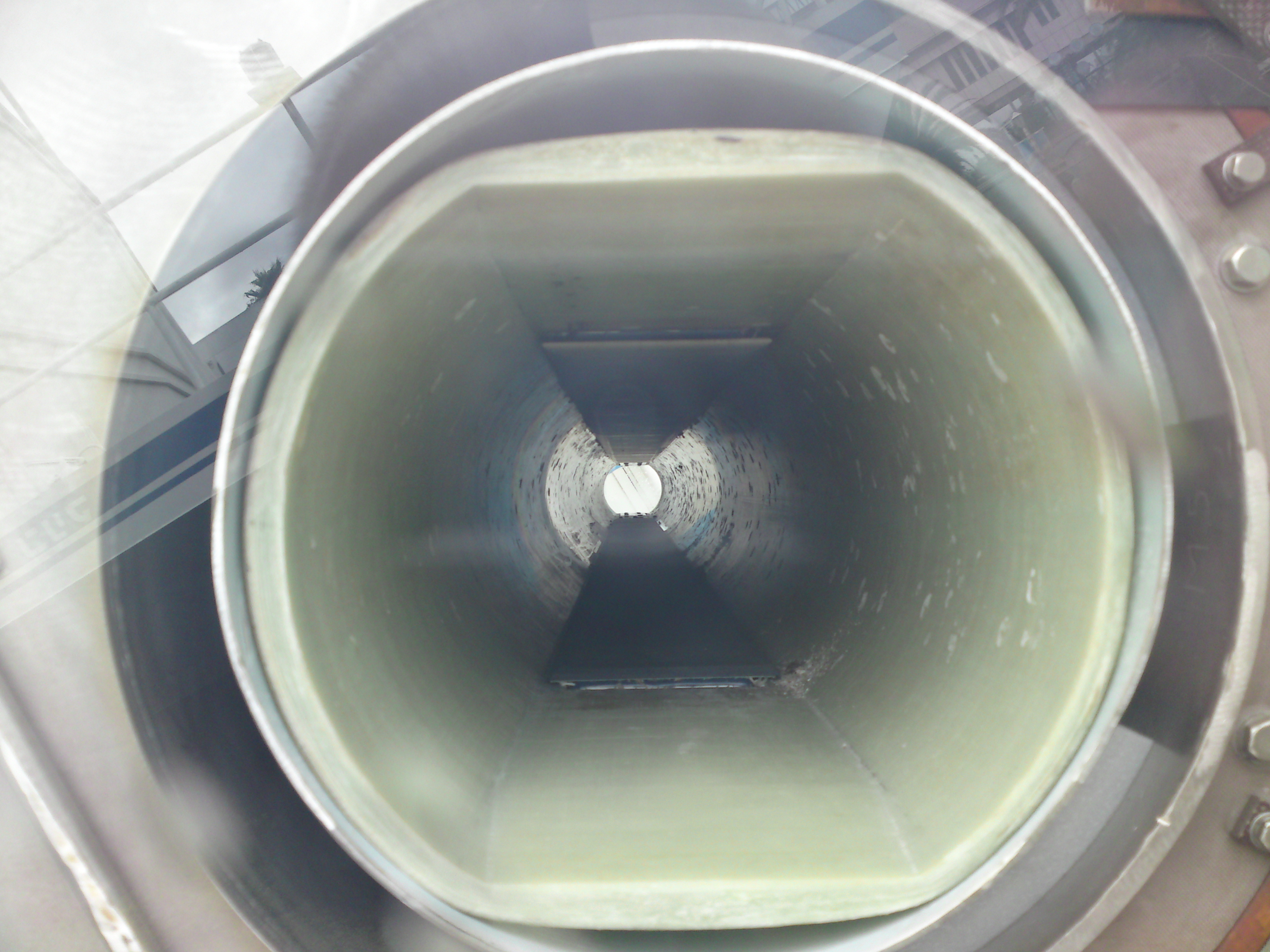 View of the inside of one of the drive tubes on the magnetohydrodynamic drive fitted to the Japanese research vessel Yamato 1. The electrode plates are visible top and bottom.